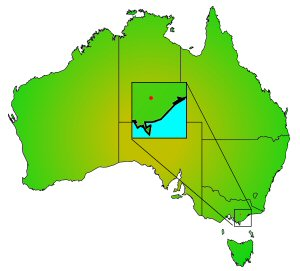 A map of Australia showing the distribution of the West Gippsland galaxias, Galaxias longifundus